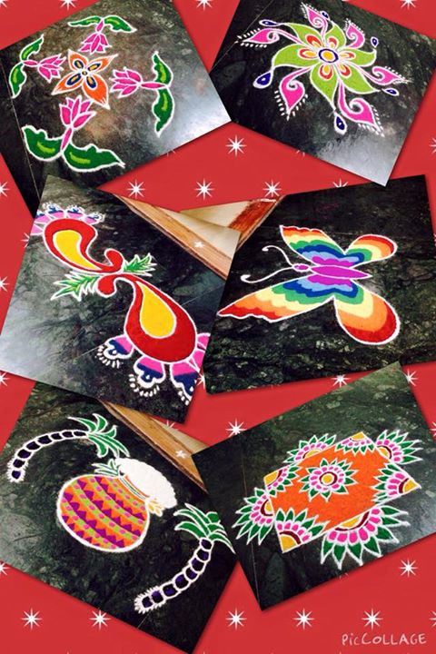 Modern type Kolam by Abhi from Chennai, Tamil Nadu